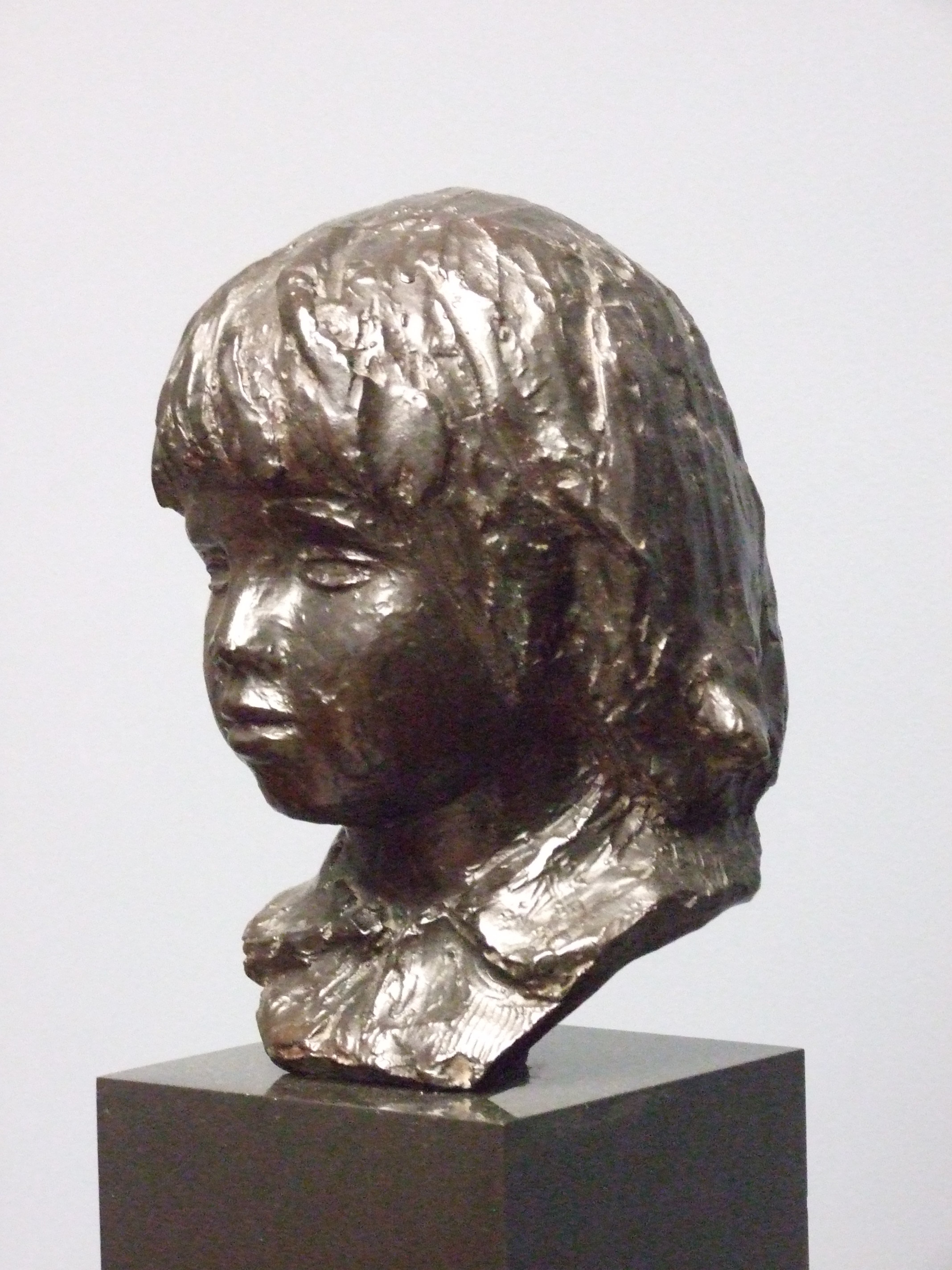 Bust of "Coco" (Claude Renoir, 1908) from Auguste Renoir at Staedel in Frankfurt am Main